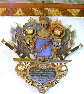 Per Hierta's burrial crest. Hanging from the north wall in Vedums church in Vara municipal.